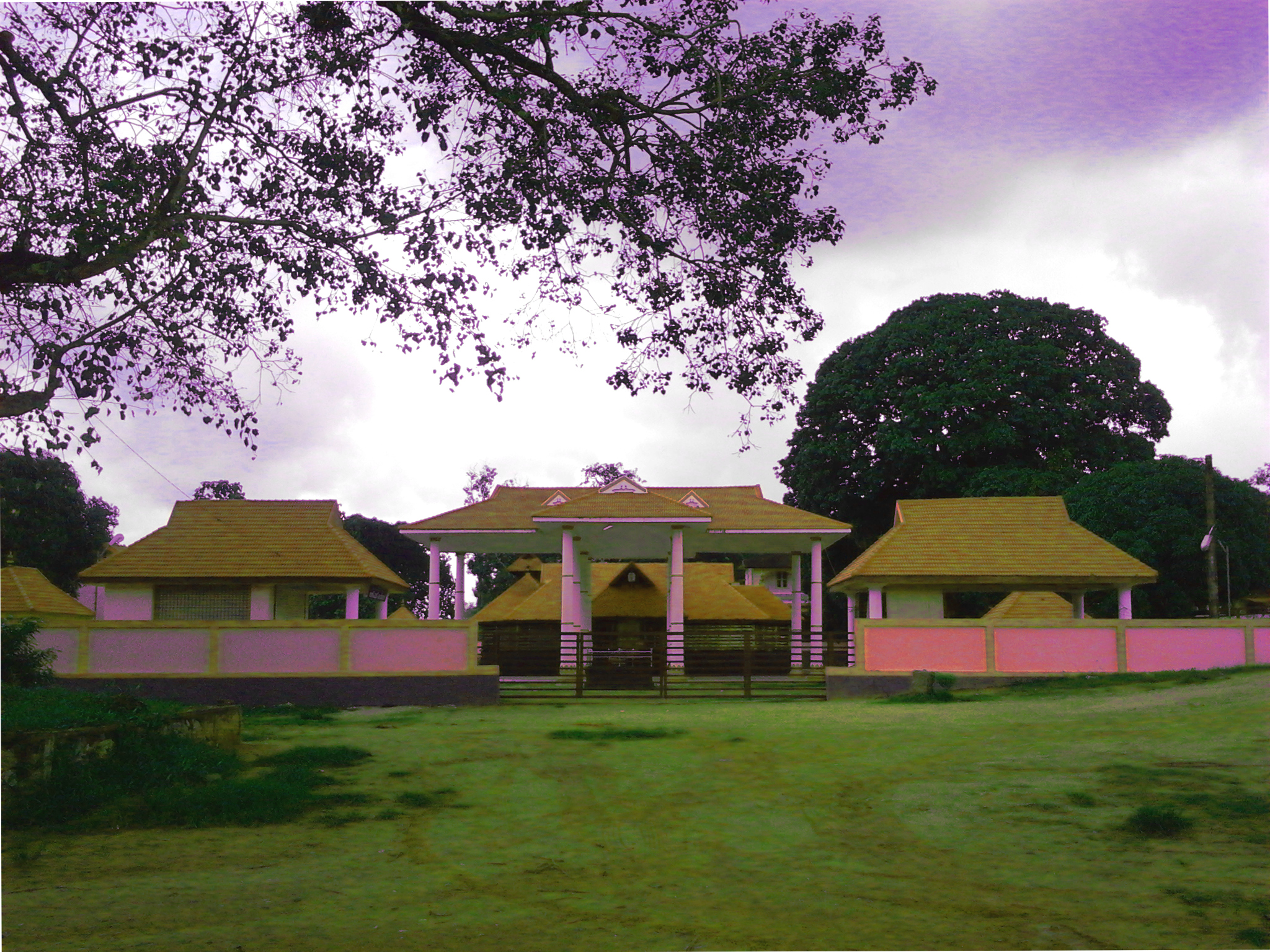 Thalavoor Thrikkonnamarkodu Durga Devi Temple